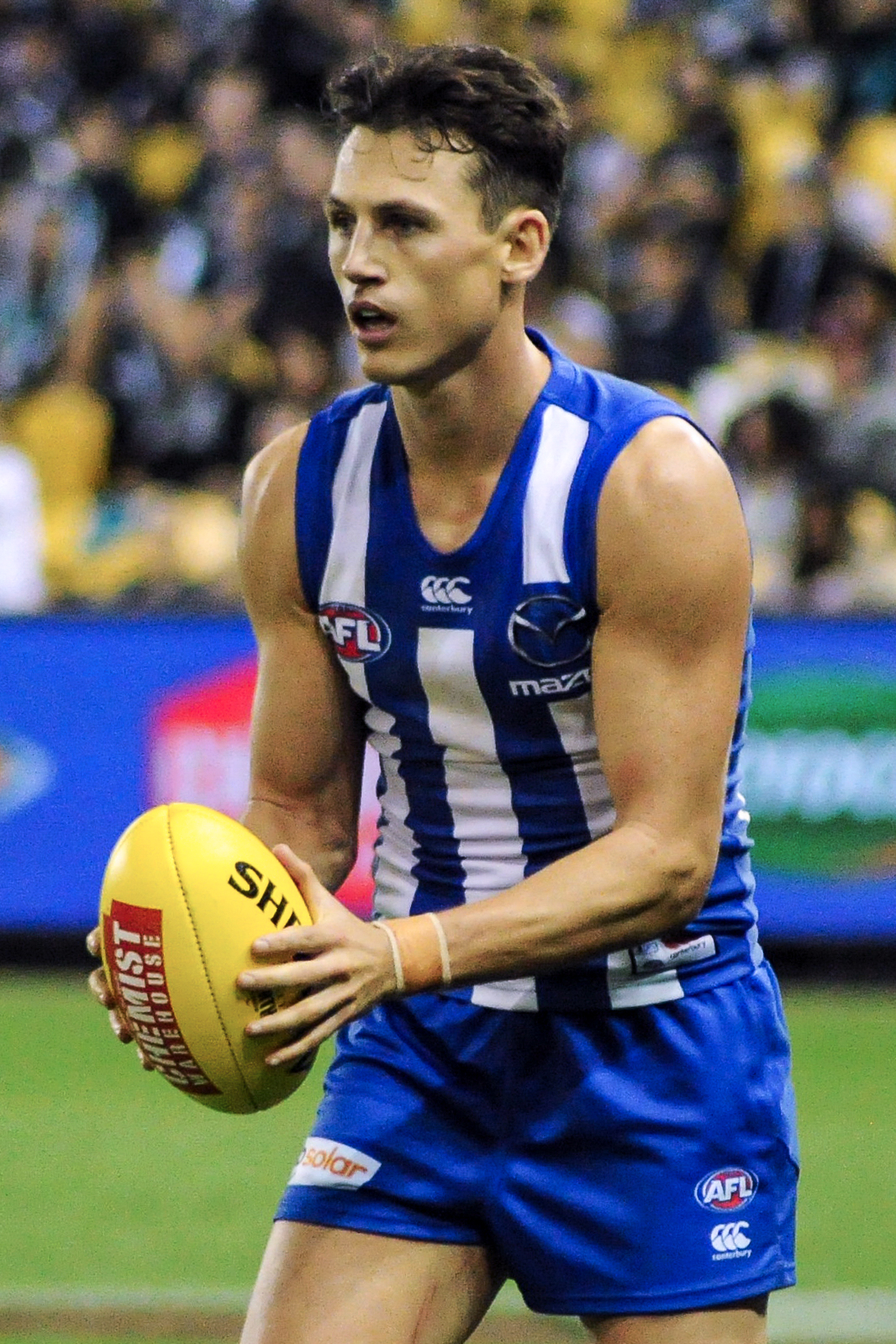 Ben Jacobs during the AFL round six match between North Melbourne and Port Adelaide on Saturday, 28 April 2018 at Etihad Stadium in Melbourne, Victoria.